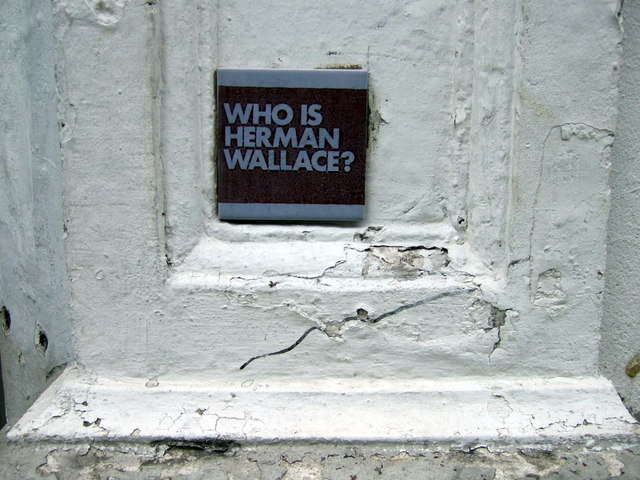 "Who is Herman Wallace?" Tile affixed low down on the corner of Whitecross Street and Old Street. By artist Carrie Reichardt The answer to the question is that Herman Wallace is a prisoner in the Louisiana State Penitentiary (Angola Prison) who has been held in solitary confinement in a 6' by 9' cell for over 40 years, accused of a murder for which there is strong evidence he did not commit. (See the Amnesty report.) The tile was produced by activist and Craftivist Carrie Reichardt. An artist closely connected with the Angola 3 of which Herman Wallace is a member. This tile is a form of "Craftivism" and is meant to publicise and spread news of the plight of Herman Wallace and many other Black Panther activists still in prison today. The Tile also works as a form of publicity for an exhibition at the Royal College of Art which is a collaboration between Herman Wallace and artist Jackie Sumell about his current living conditions and his ideal house, based on a long-running correspondence between the two.